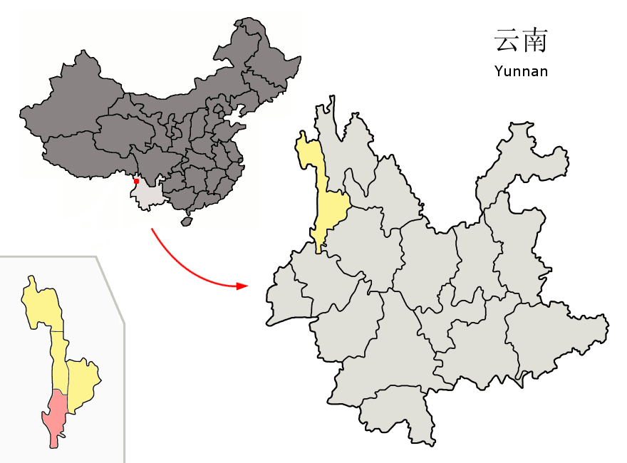 Location of Lushui County (pink) and Nujiang Prefecture (yellow) within Yunnan province of China Map drawn in september 2007 using various sources, mainly : Yunnan province administrative regions GIS data: 1:1M, County level, 1990 Yunnan Counties map from